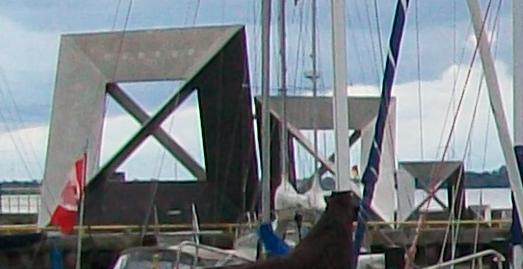 The place were the Olympic Flame in Kingston was in 1976